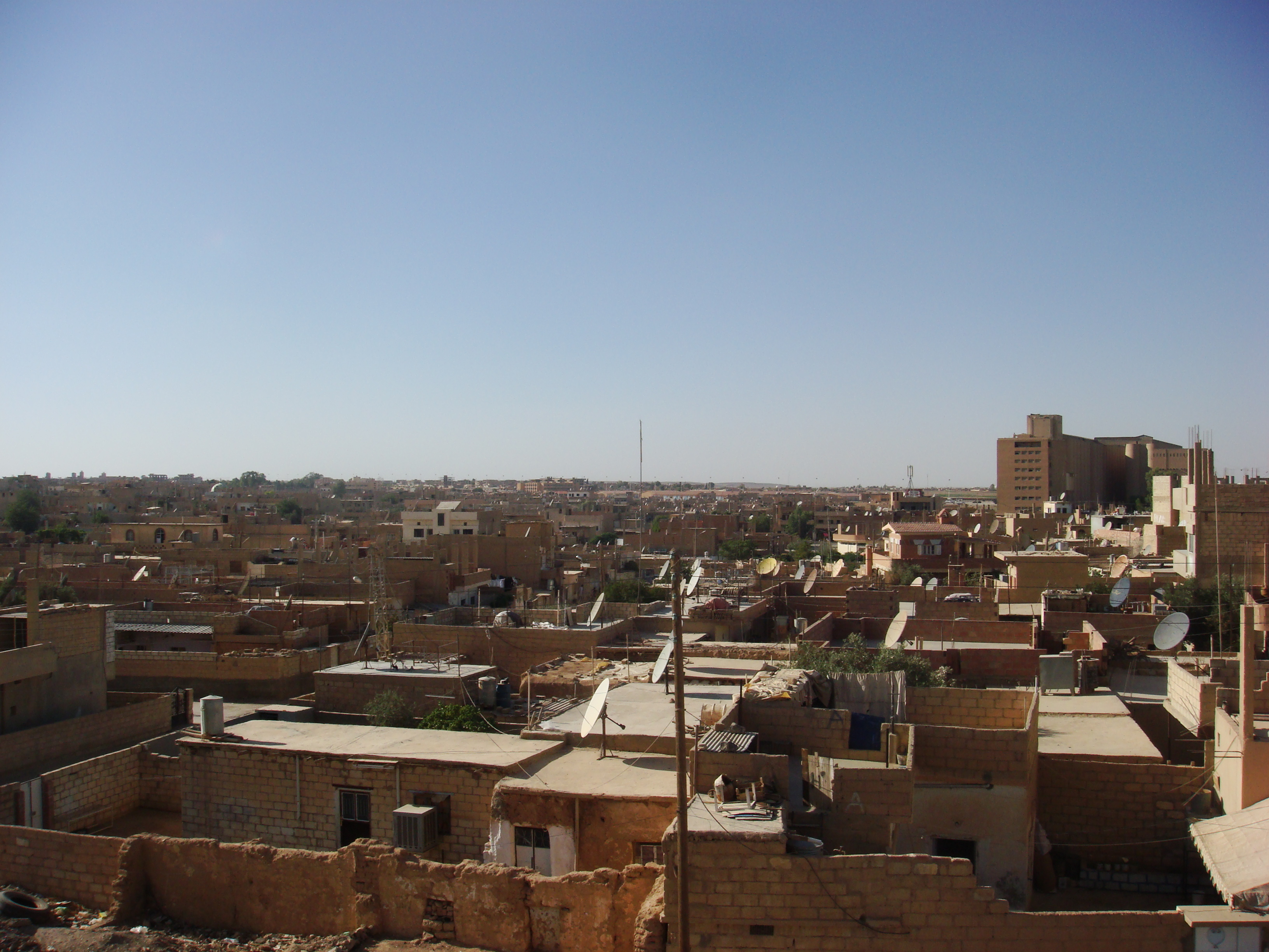 Tal hajar Quarter in AL-Hasakah Syria